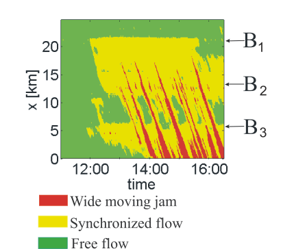 Measured EGP at three bottlenecks B1, B2 and B3